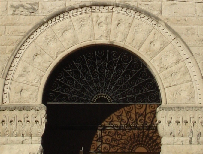 Wrought-iron scrollwork spans the archway